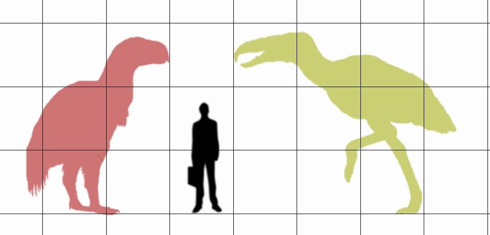 Size comparison between the terror birds Brontornis (2.8 metres) and Kelenken (here assumed to be about 3 meters tall, actual size is disputed)